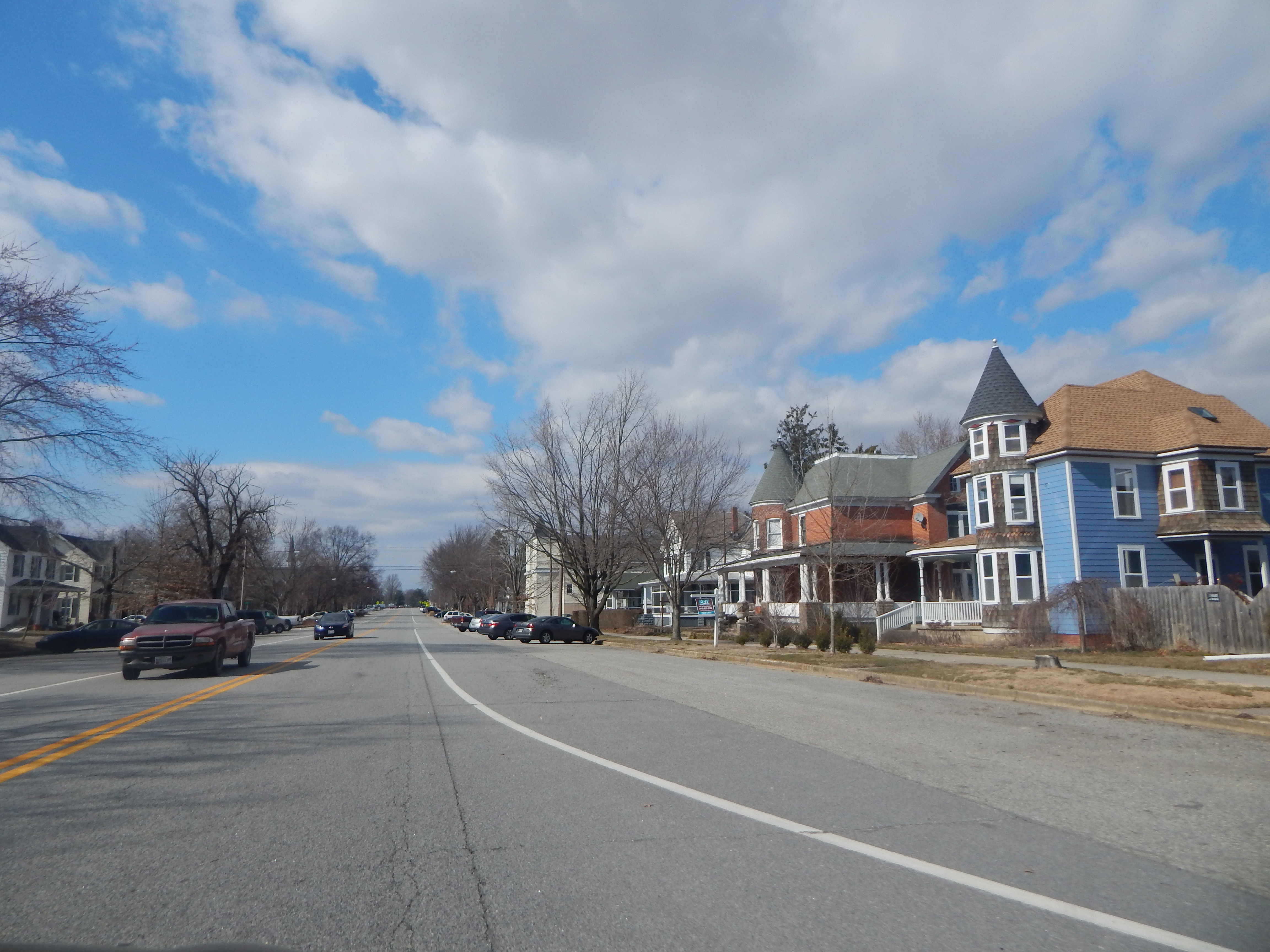 Maryland Route 312 in Ridgely, Maryland.